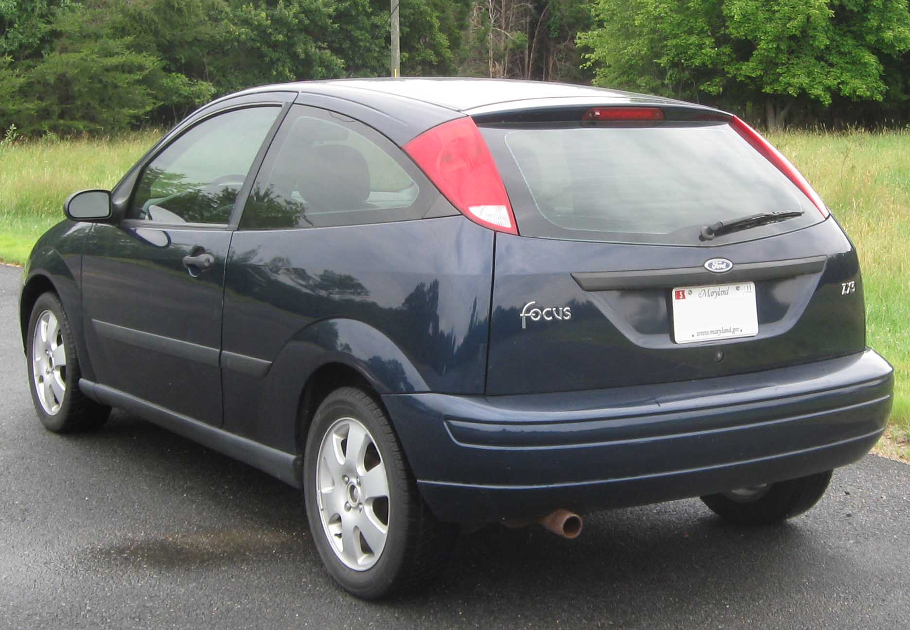 2001 Ford Focus ZX3 photographed in Centreville, Virginia, USA.